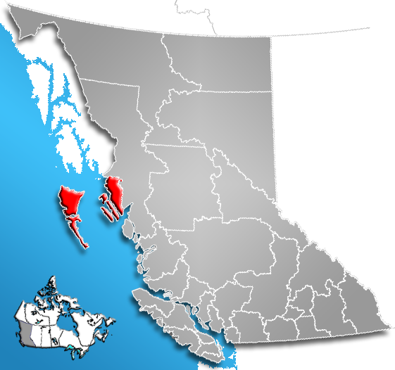 Location of North Coast Regional District, British Columbia